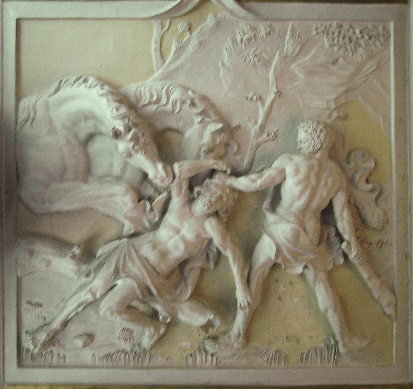 Jan Christian Hansche, Scene from the life of Hercules on the ceiling of the Salon des Gobelins in the Castle of Modave.